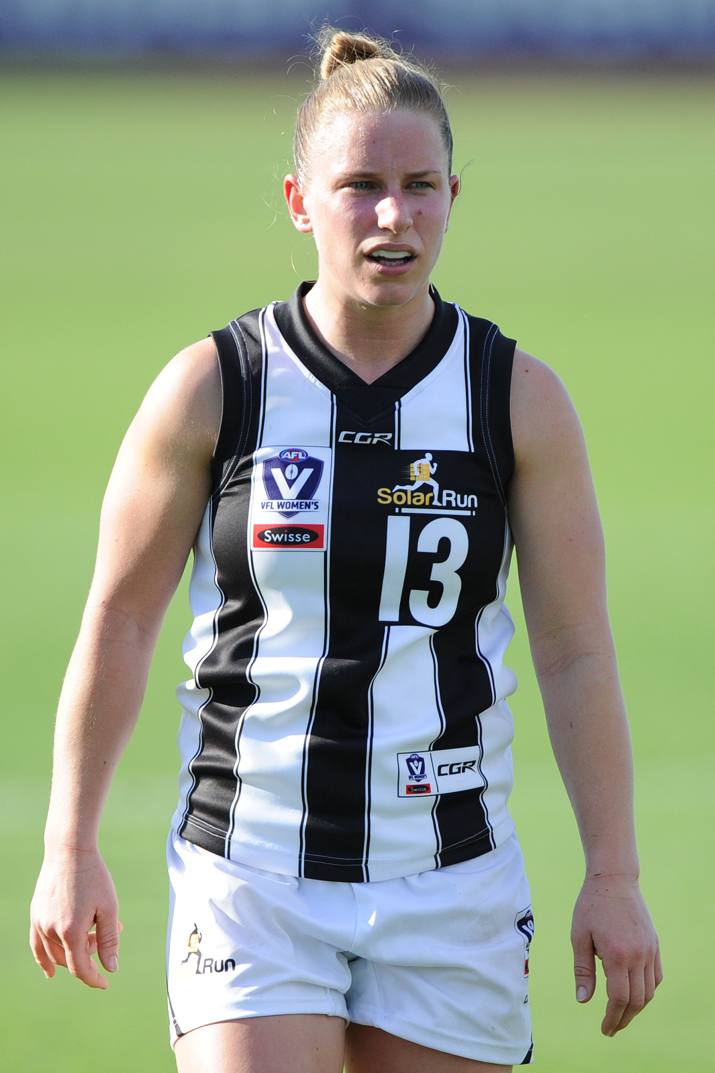 Jaimee Lambert of Collingwood during the 2018 VFLW round 8 match between NT Thunder and Collingwood at TIO Stadium on Saturday, 30 June 2018 in Darwin, Australia.